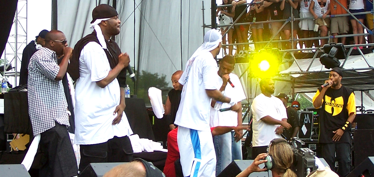 Left to right: Mathematics (in back), Inspecta Deck, Street Life, U-God, Cappadonna (crouched, in red), Method Man, GZA, Raekwon, RZA